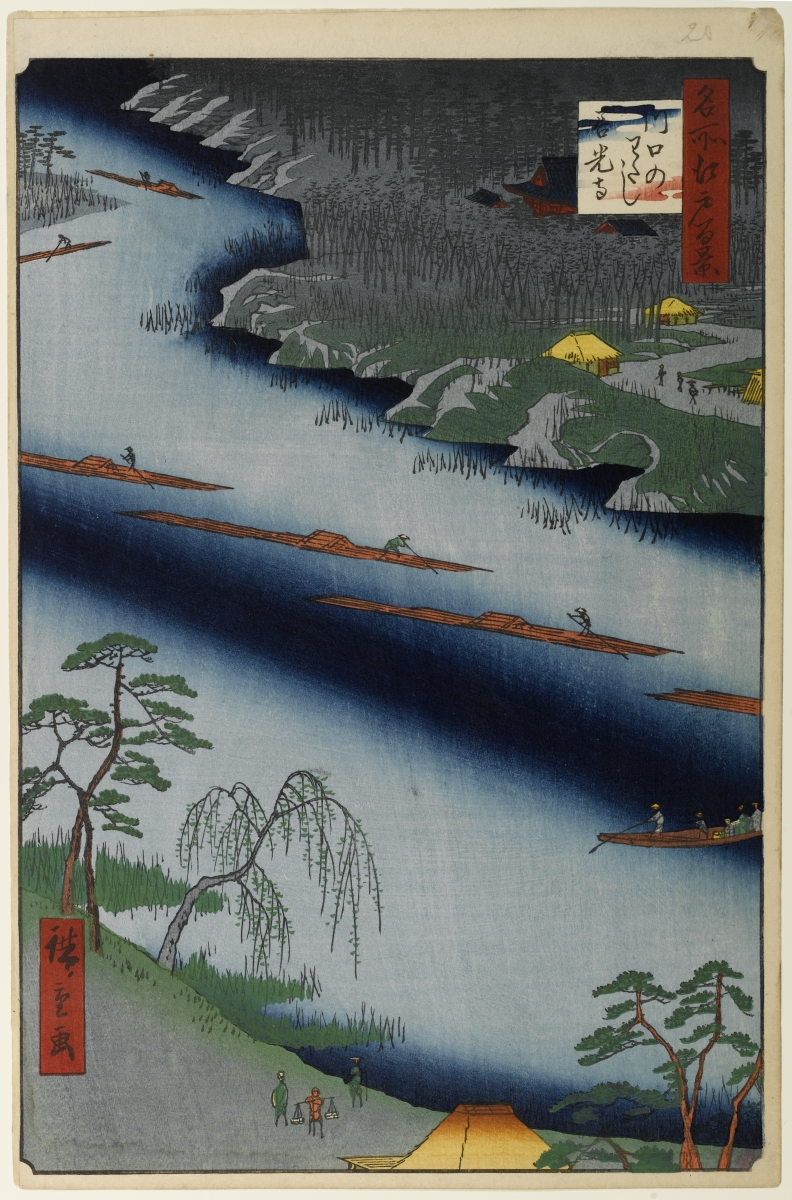 Part of the series One Hundred Famous Views of Edo, no. 020, part 1: Spring.